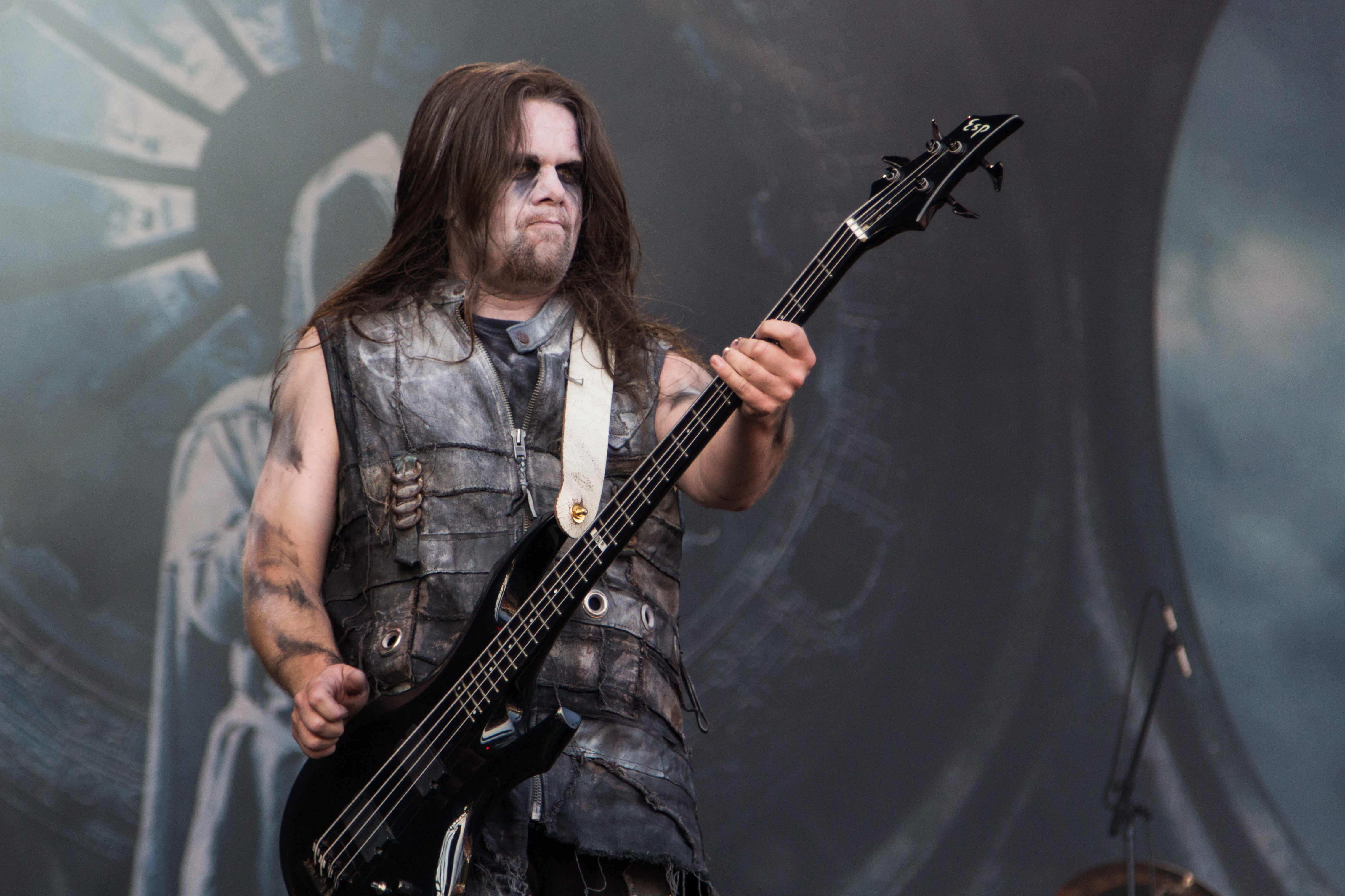 Terje "Cyrus" Andersen from Dimmu Borgir at the See-Rock Fetival 2014